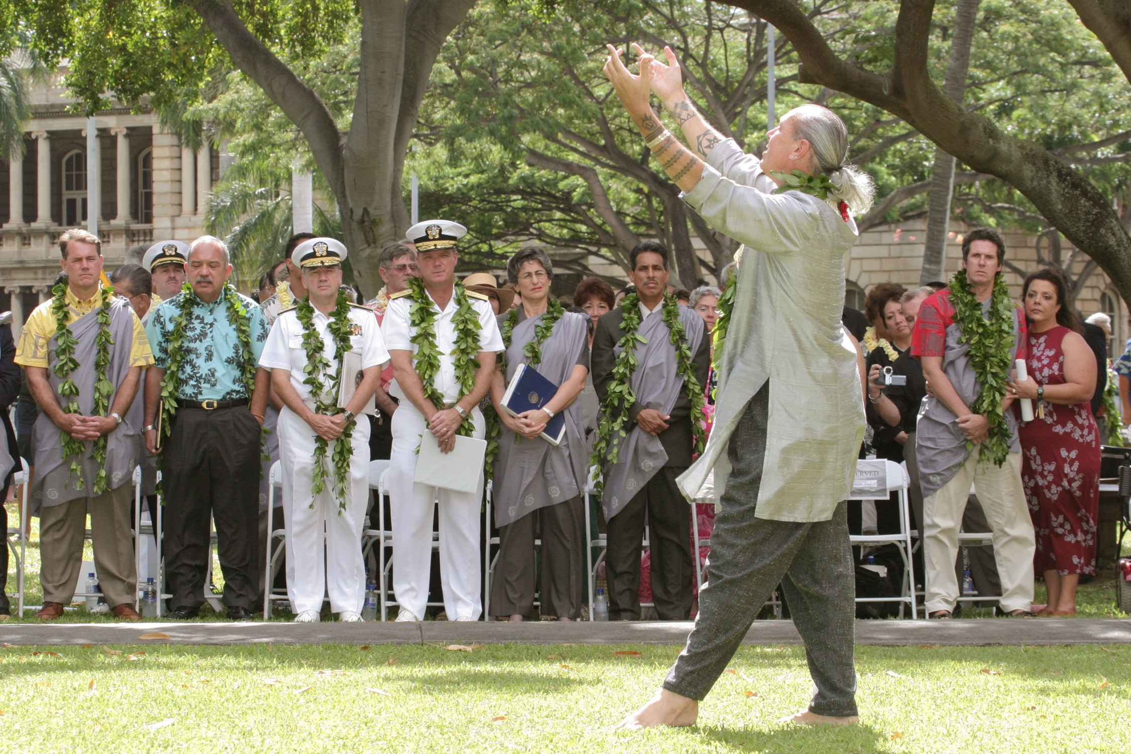 A ceremony at Iolani Palace where the Navy returned access control of the island of Kaho'olawe to the State of Hawaii, US Navy Newsstand photo 031112-N-3228G-001 Pearl Harbor, Hawaii (Nov. 12, 2003) -- Commander, U.S. Pacific Fleet Adm. Walter F. Doran, left, Rear Adm. Barry McCullough, Commander, Navy Region Hawaii and Commander, Naval Surface Group Middle Pacific, and Hawaii state government officials watch a hula performance (by Frank Kawaikapuokalani Hewett) during a ceremony at Iolani Palace where the Navy returned access control of the island of Kahoʻolawe to the State of Hawaii. Pres. William J. Clinton signed a fiscal year 1993 appropriations act that conveyed title of the island back to the state and entered into a memorandum of understanding with the state regarding cleanup and control of the land. Kahoʻolawe was used as a bombing range from World War II to the end of the Cold War and the Navy has spent $460 million to remove ordnance from more than 20,000 acres. U.S. Navy photo by Photographer's Mate 1st Class William R. Goodwin. (RELEASED)